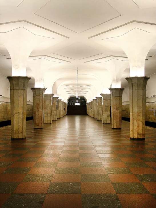 Image of Kropotkinskaya metro taken with Canon 30D